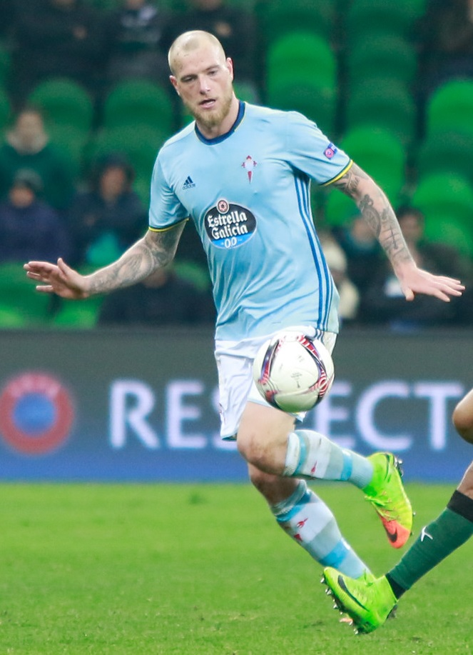 John Guidetti with Celta Vigo in an UEFA Europa League game against FC Krasnodar.